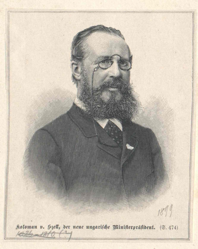 Kálmán Széll de Duka et Szentgyörgyvölgy (8 June 1843 – 16 August 1915) was a Hungarian politician who served as Prime Minister of Hungary from 1899 to 1903.